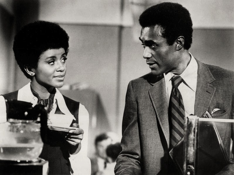 Janet MacLachlan & Calvin Lockhart in Halls of Anger - publicity still (cropped)